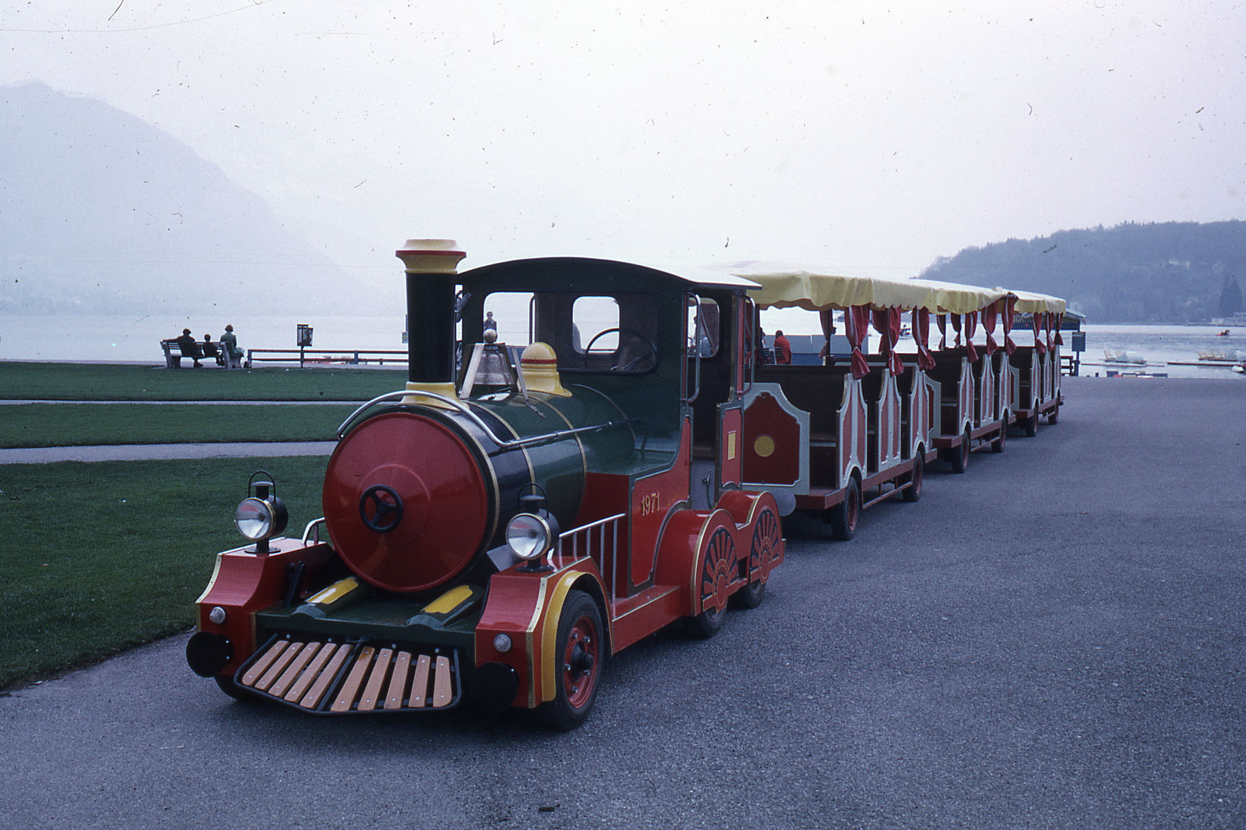 The touristic train of Annecy in 1974.